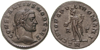 CONSTANTIUS I, as Caesar. 293-305 AD. Æ Follis (9.51 gm). Treveri (Trier) mint. Struck circa 296-297 AD. CONSTANTIVS NOB CAES, laureate head right GENIO POPV-LI ROMANI, Genius standing left, holding patera, cornucopiae; A-G/TR. RIC VI 213a.